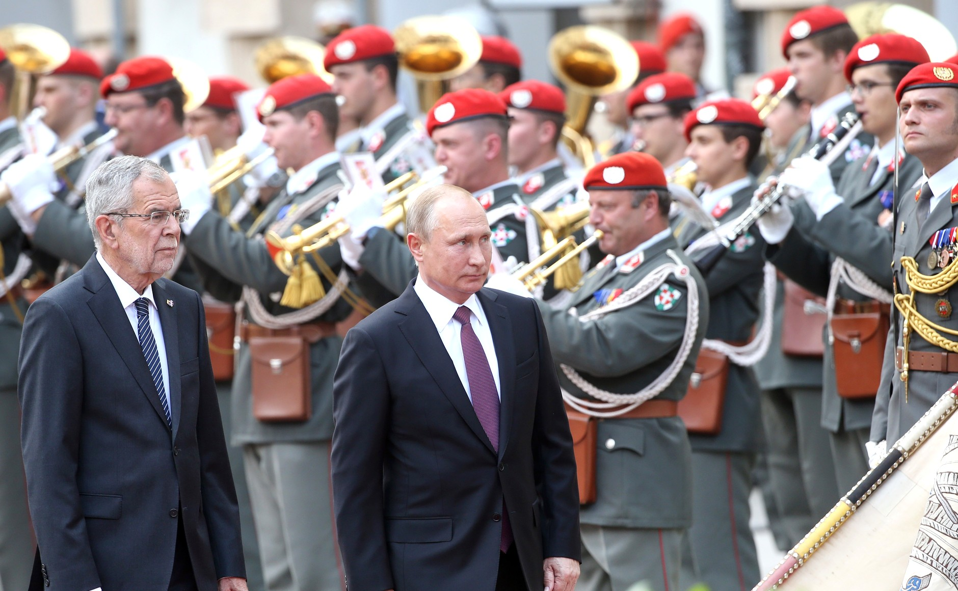 During his working visit to Austria, the President of Russia held talks with Federal President of the Republic of Austria Alexander van der Bellen and Federal Chancellor Sebastian Kurz.